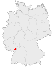 locator map of the German town of Ludwigshafen in Rhineland-Palatinate